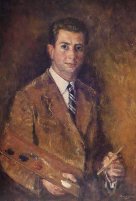 Auto portrait of Roland Khoury on mirror.